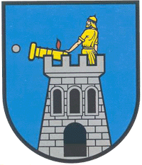 Coat of arms of Belz, Lviv Oblast